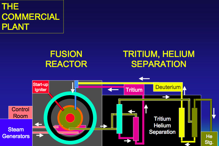 Description: Flow diagram of a commercial fusion plant Author: Webber Source: "own work" Date: 2005